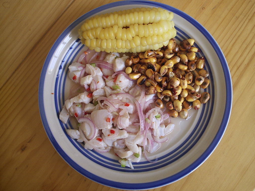 Basic toyo cebiche from Peru: fish + choclo (boiled corn) + cancha (toasted corn).